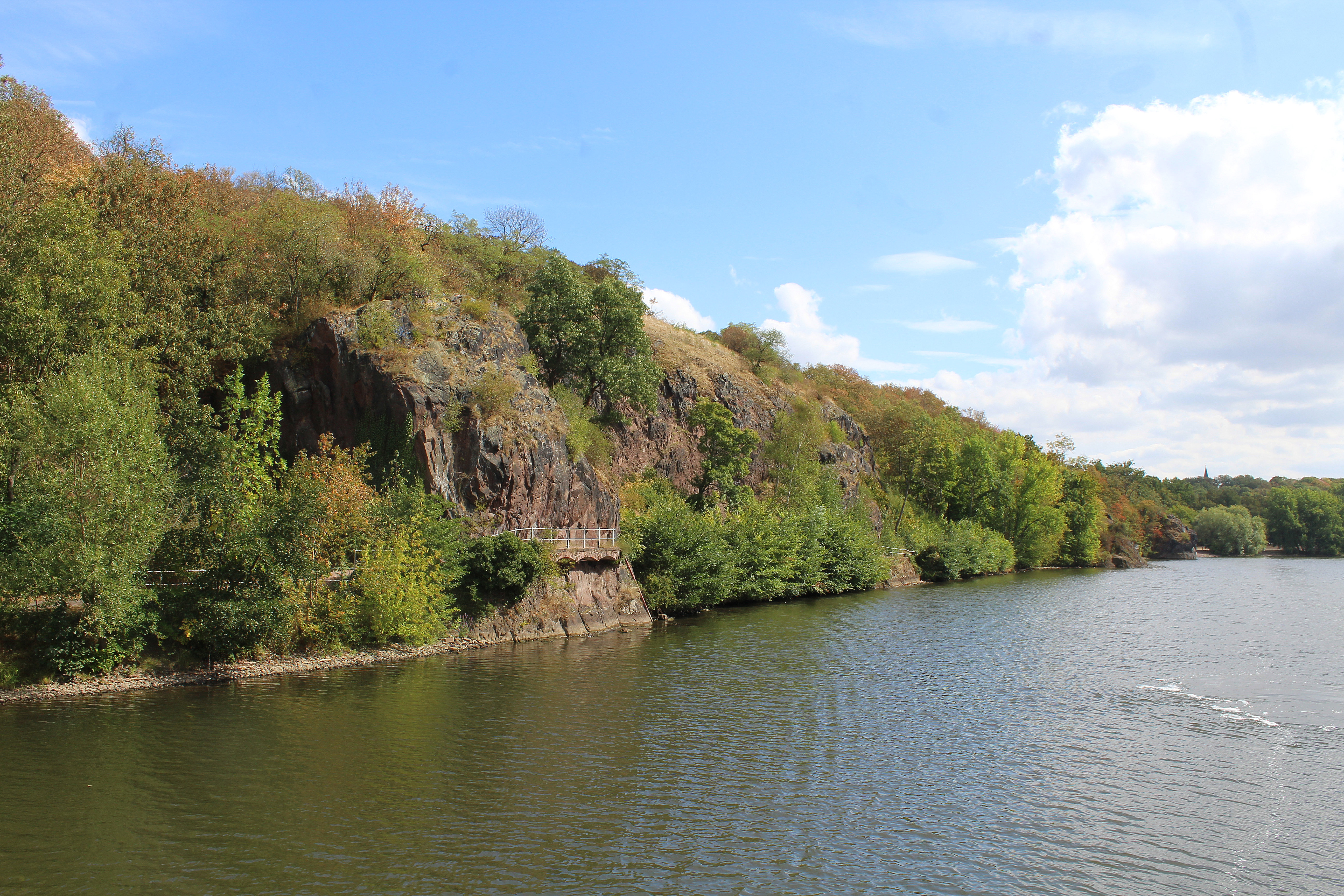 Halle (Saale), the Klausberge